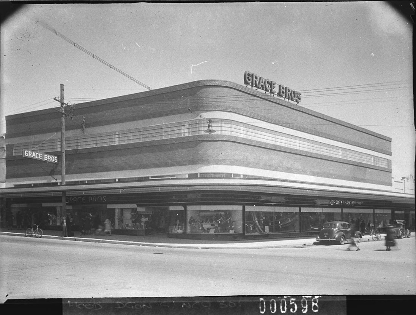 A new Grace Bros regional store, Parramatta